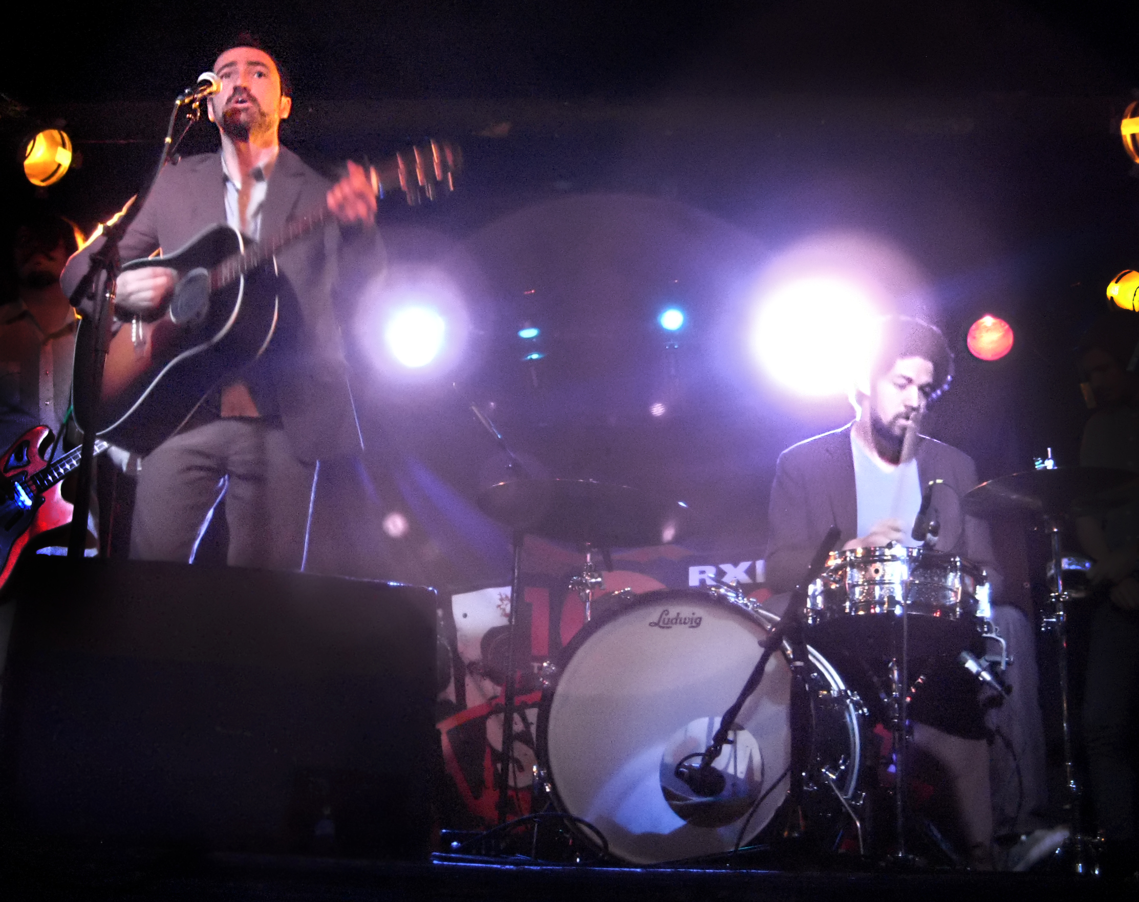 Broken Bells performing at Webster Hall, NYC